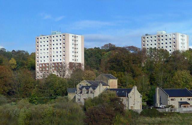 Flats At Crosley Wood Road, Bingley